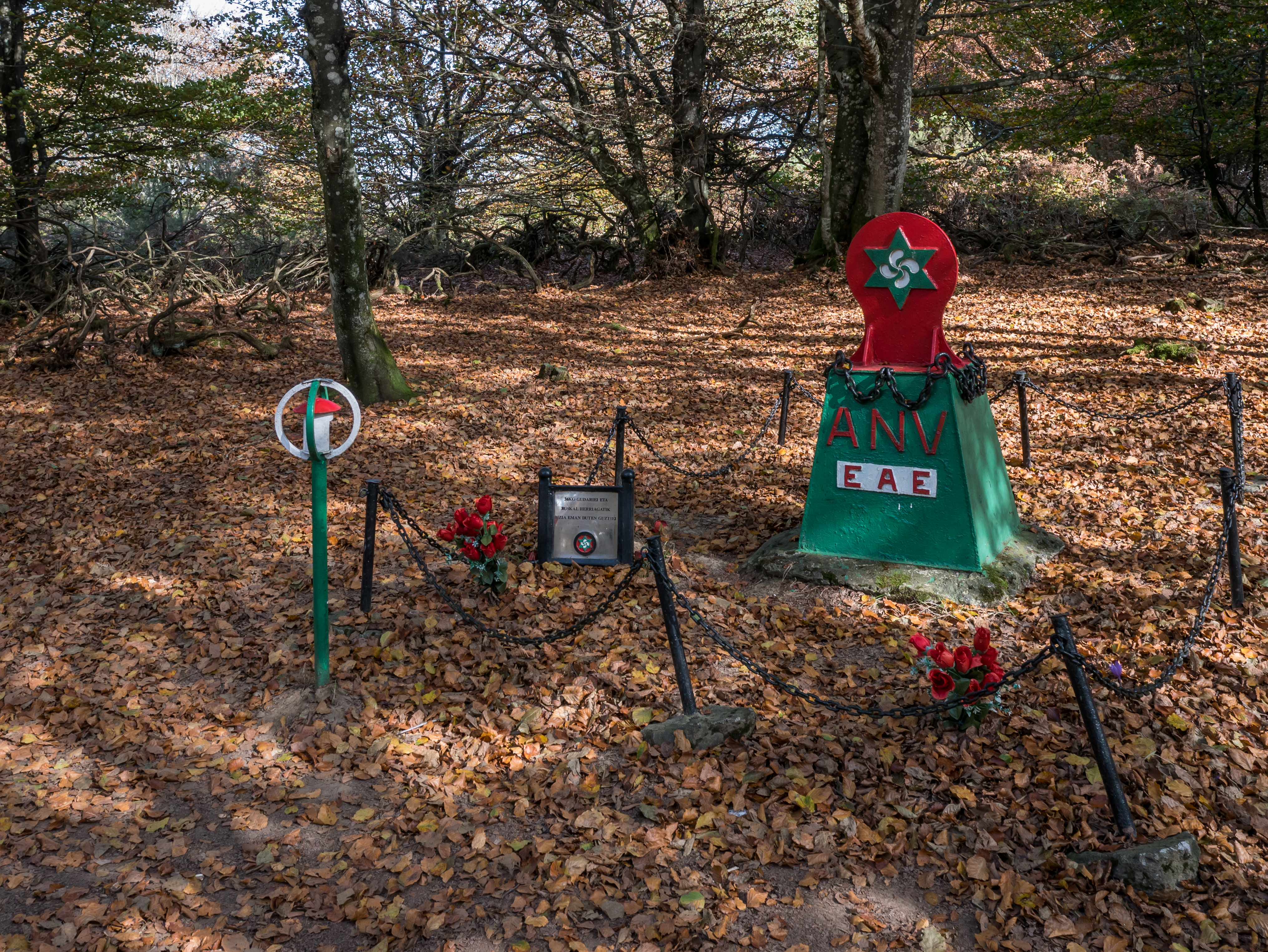 Memorial to Spanish Civil War combatants ("Gudaris") on Albertia mountain summit. Álava, Basque Country, Spain